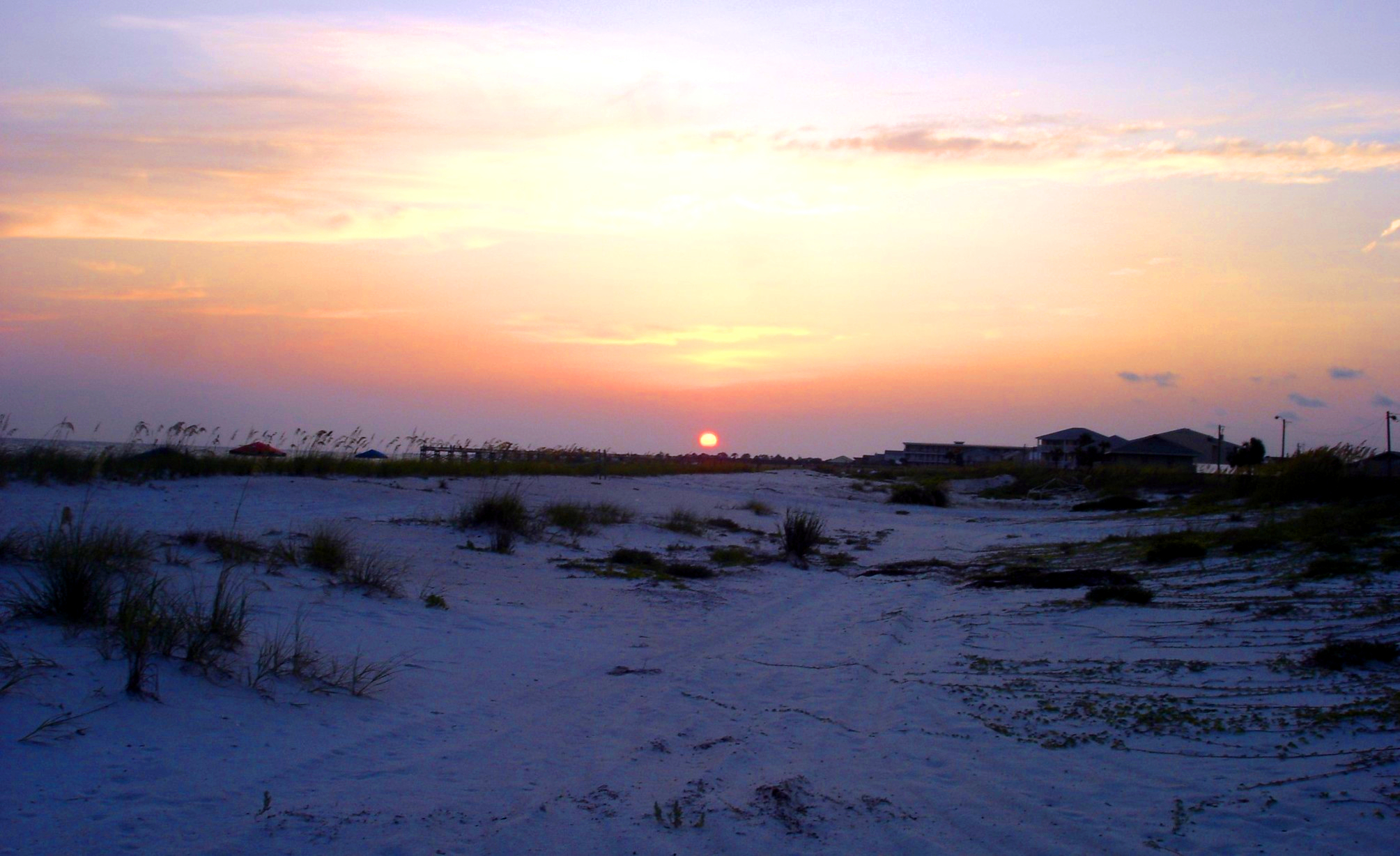 Sunset over Mexico Beach pier, Bay County FL